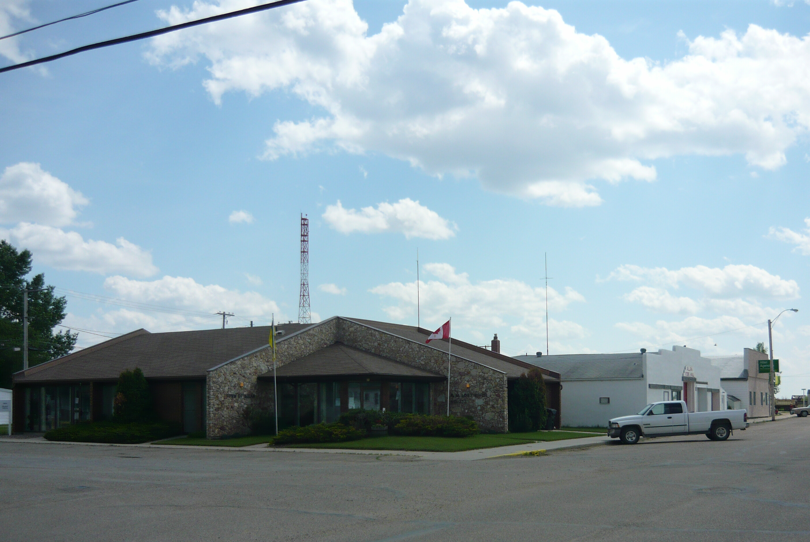 Main Street in Allan, Saskatchewan, Canada. The building in the foreground is the combined Town Office and Rural Municipality Office.